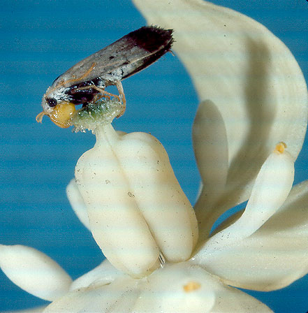 A Tegeticula moth is depositing a pollen ball onto a stigma of a Yucca plant.